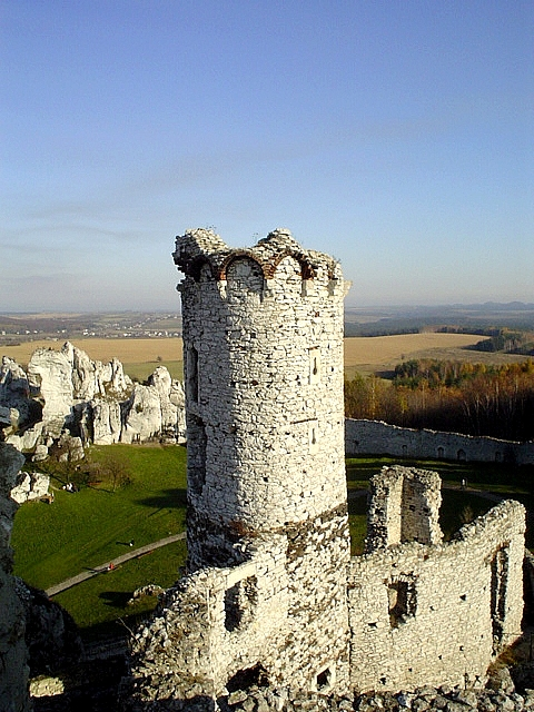 Ogrodzieniec - castle - tower